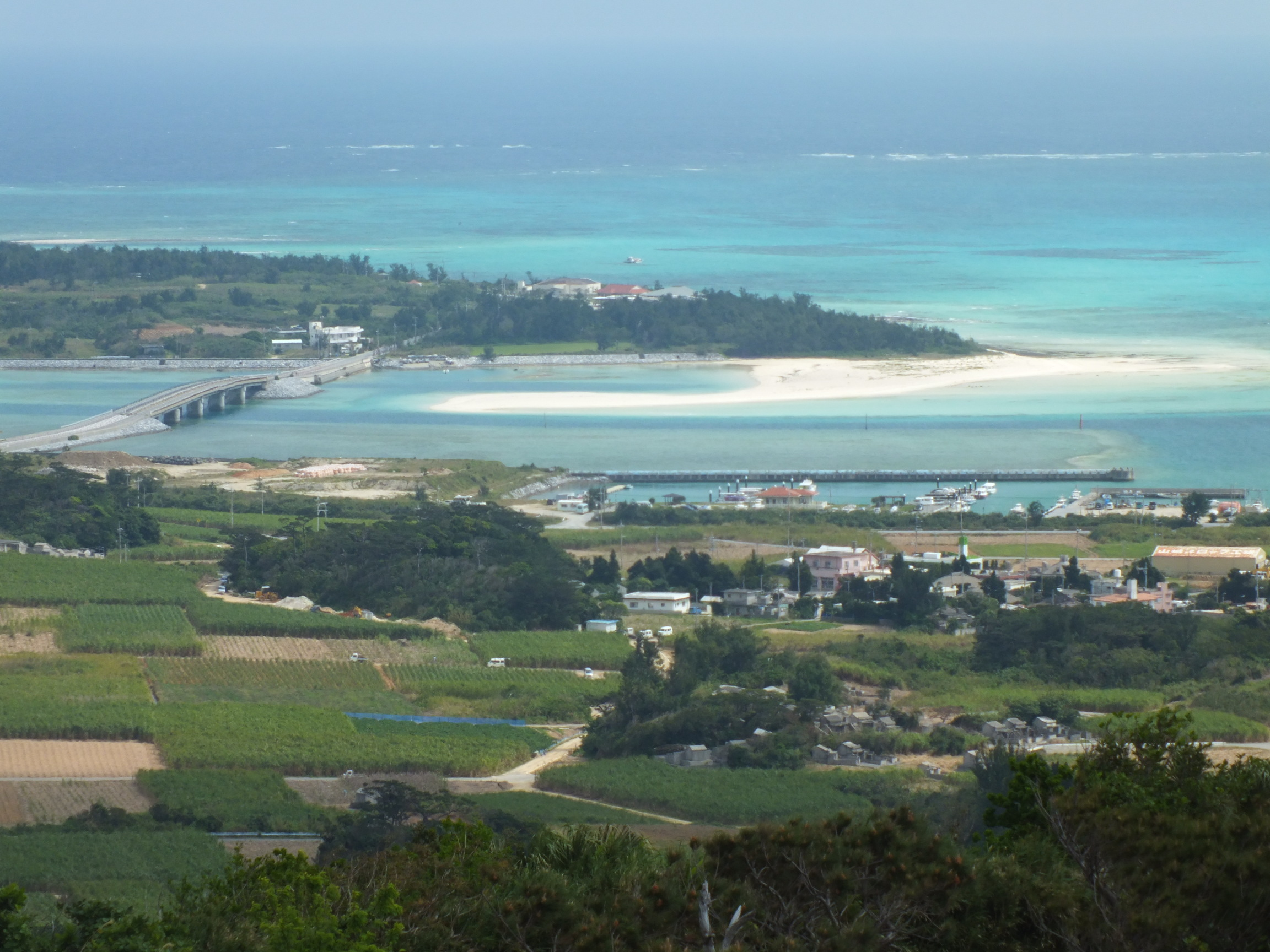 A port and Ou Island, seen from Tounnaha-jō, Kumejima, Okinawa Prefecture, Japan.